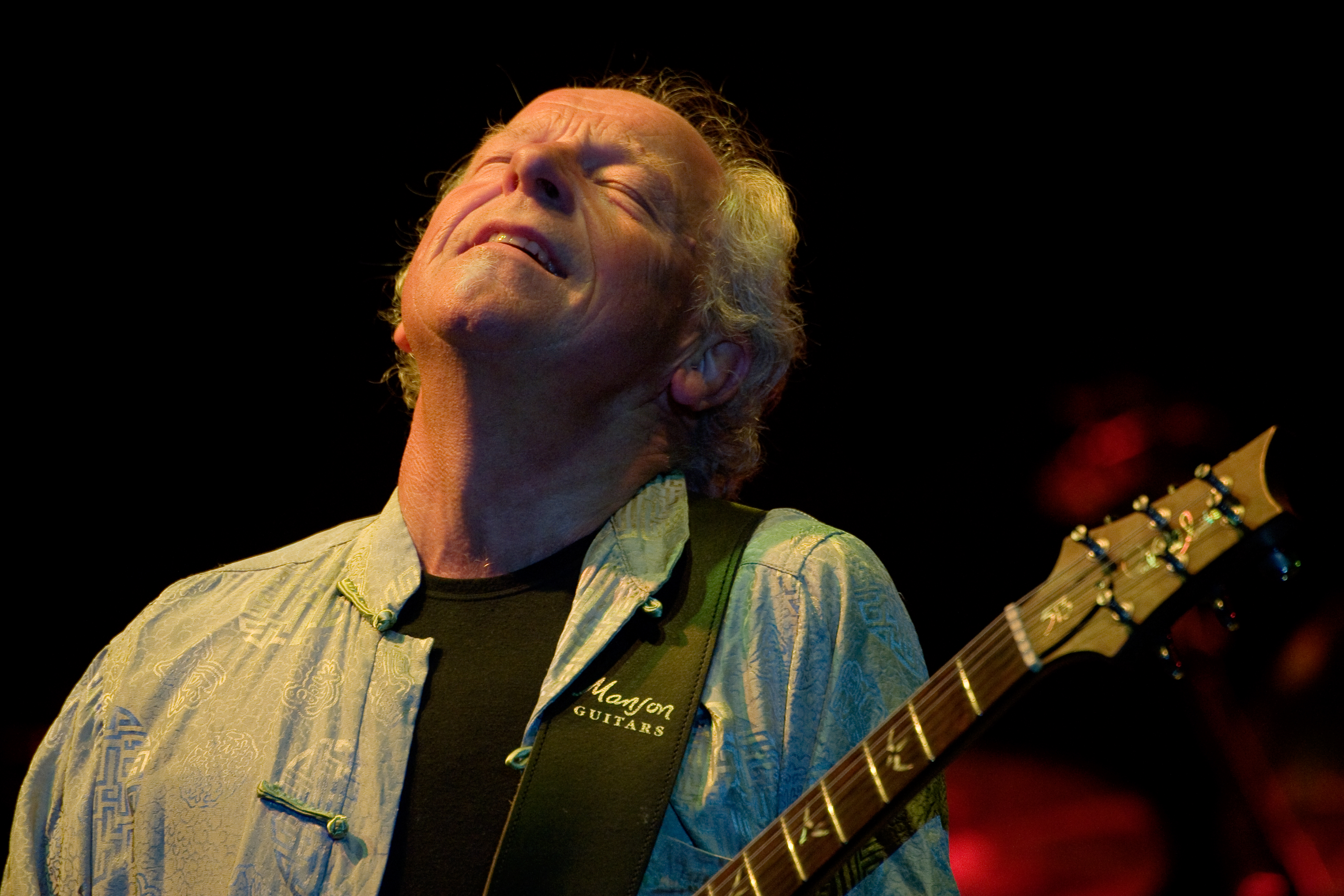 Martin Barre of Jethro Tull Genova 14/05/2010